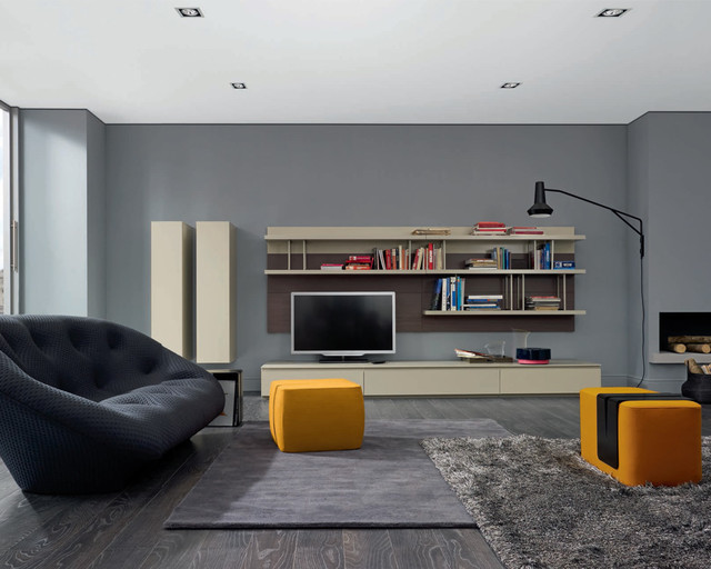 Living room in Chicago.